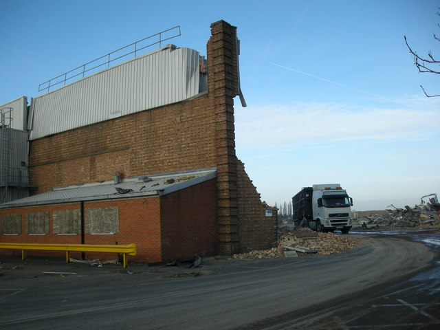 Ryton former Peugeot car plant. Demolition of the former car plant is in progress. Part of the site is to be developed for warehousing.